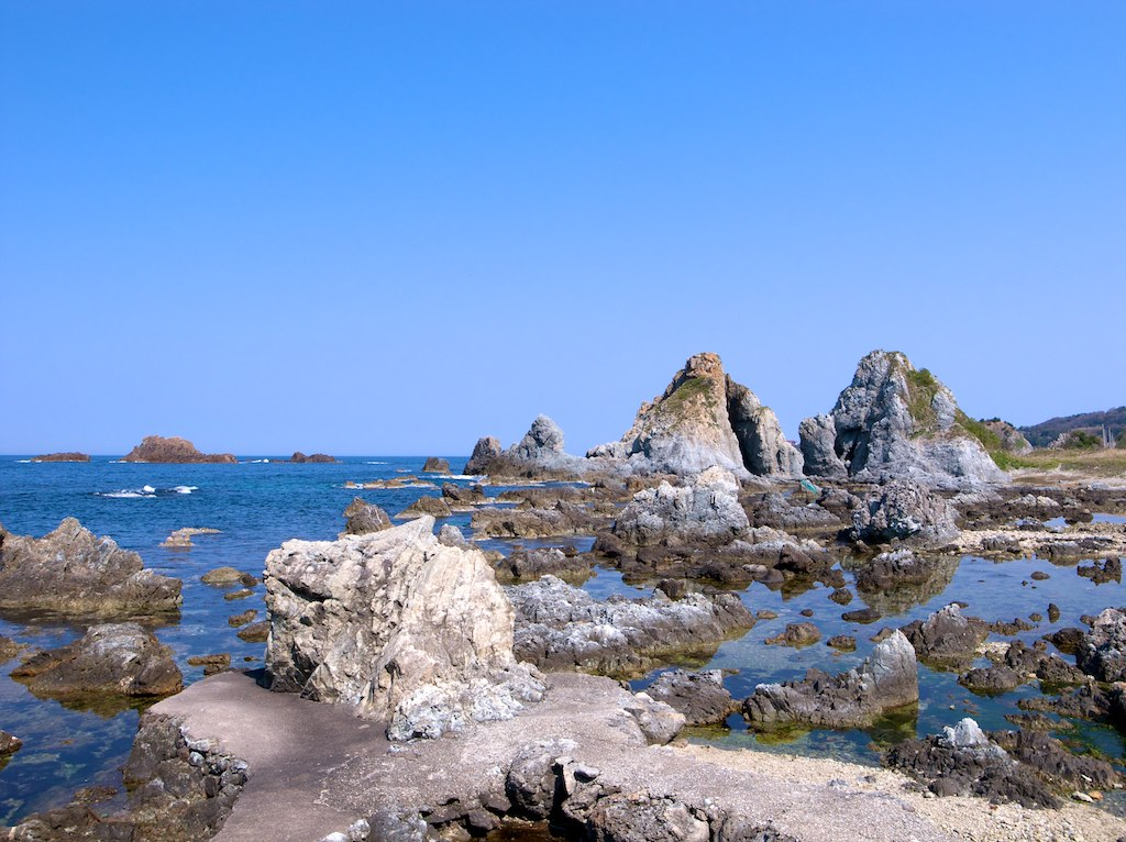 Nanaura coast in Sado, NIigata pref Japan